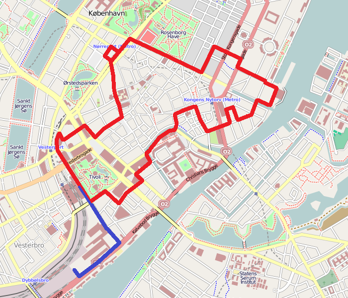 Map of Copenhagen bus lines CityCirkel, which existed from 2009 to 2010 (red), and Tivoli Shuttle, which existed in 2010 (blue). The map shows the lines as they were, when they were replaced by line 11A at 24 October 2010.